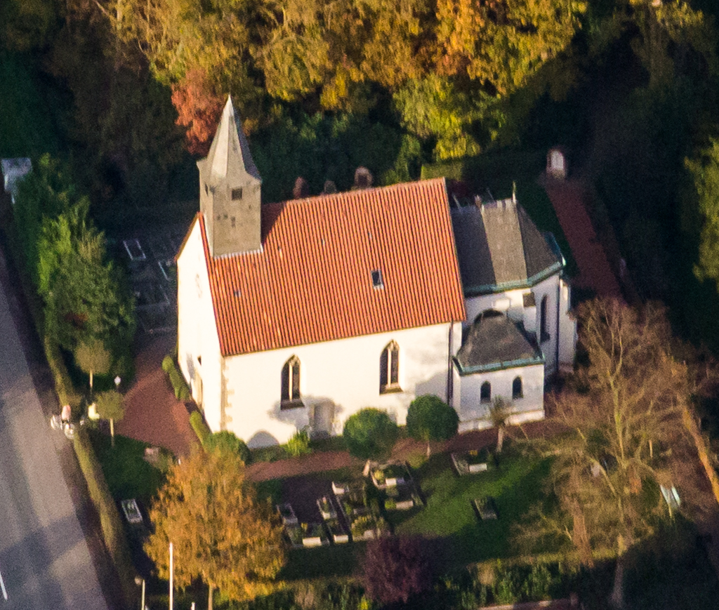 St. John's Church, Venne, Senden, North Rhine-Westphalia, Germany